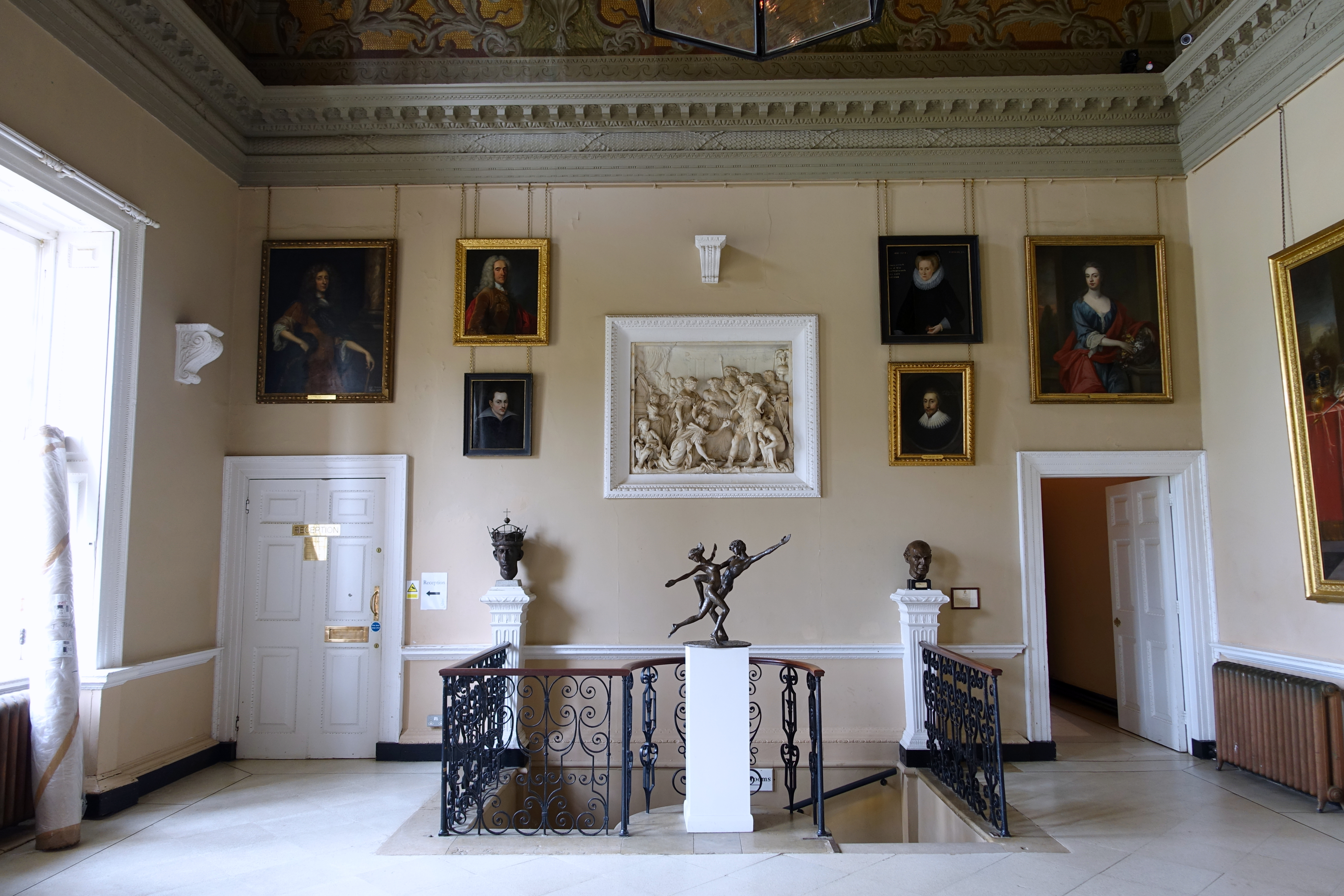 Interior view of Stowe House - Buckinghamshire, England.